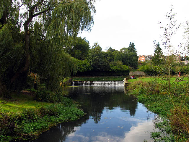 River Avon: Tetbury Branch. A view of a section of the River Avon, next to the Abbey, which eventually passes through the Abbey House and gardens just behind the photographer.